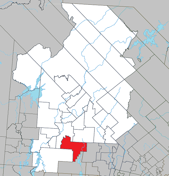 Location of Lac-Ernest, Quebec within Antoine-Labelle Regional County Municipality.